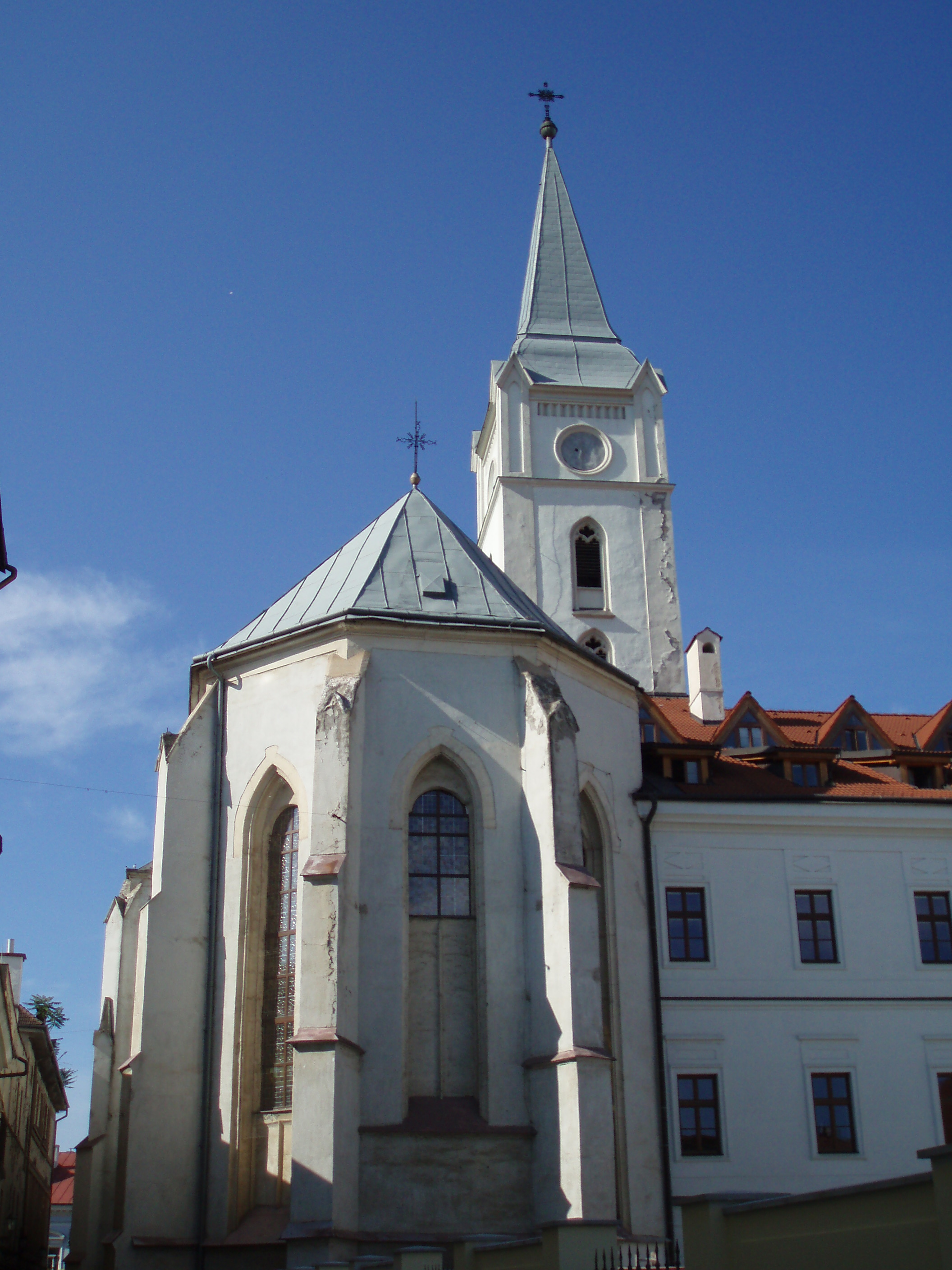 Franciscan Church Košice, Slovakia